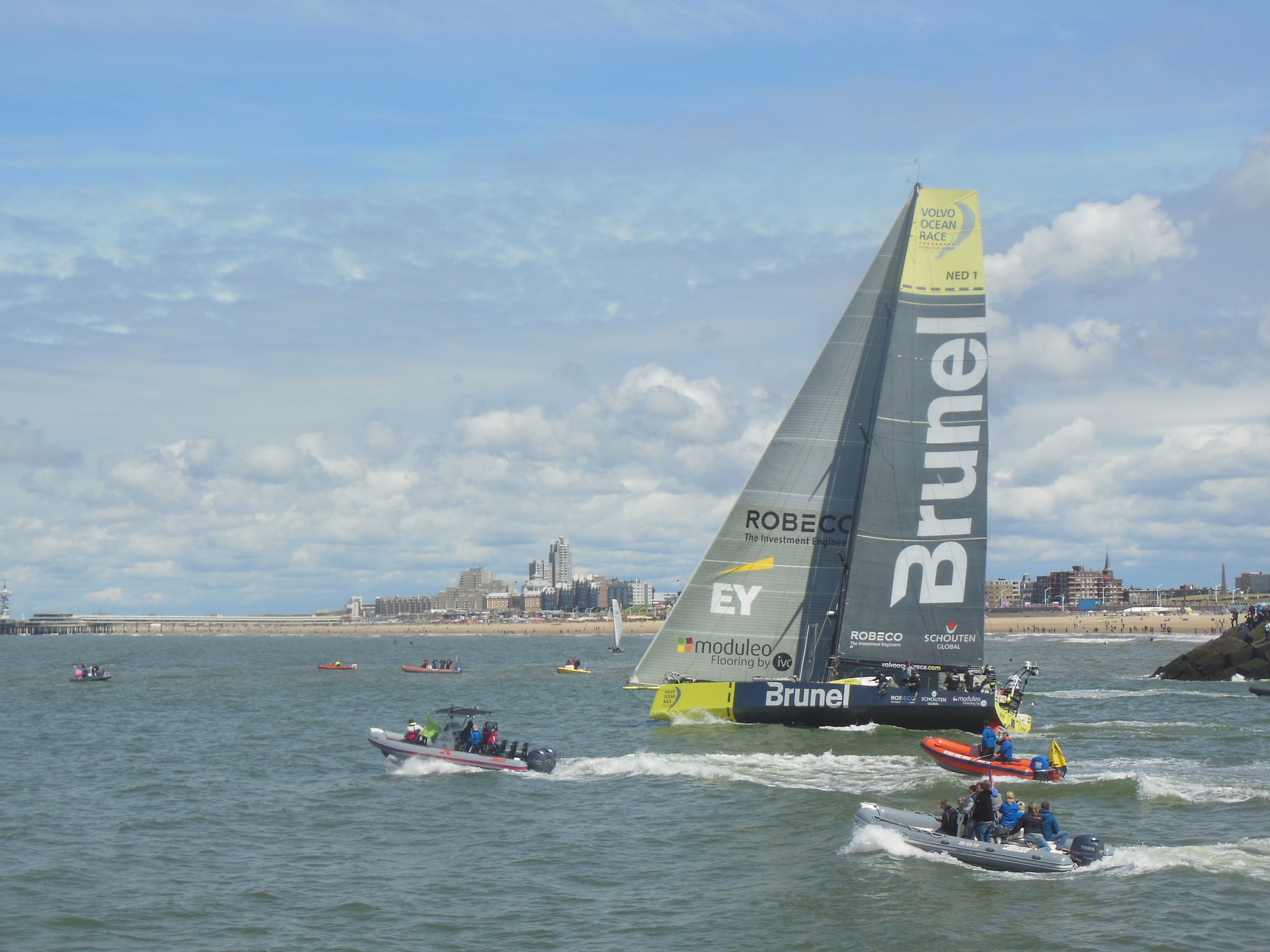 VO65 team Brunel at the re-start after the pitstop in Scheveningen, Volvo Ocean Race 2014-15